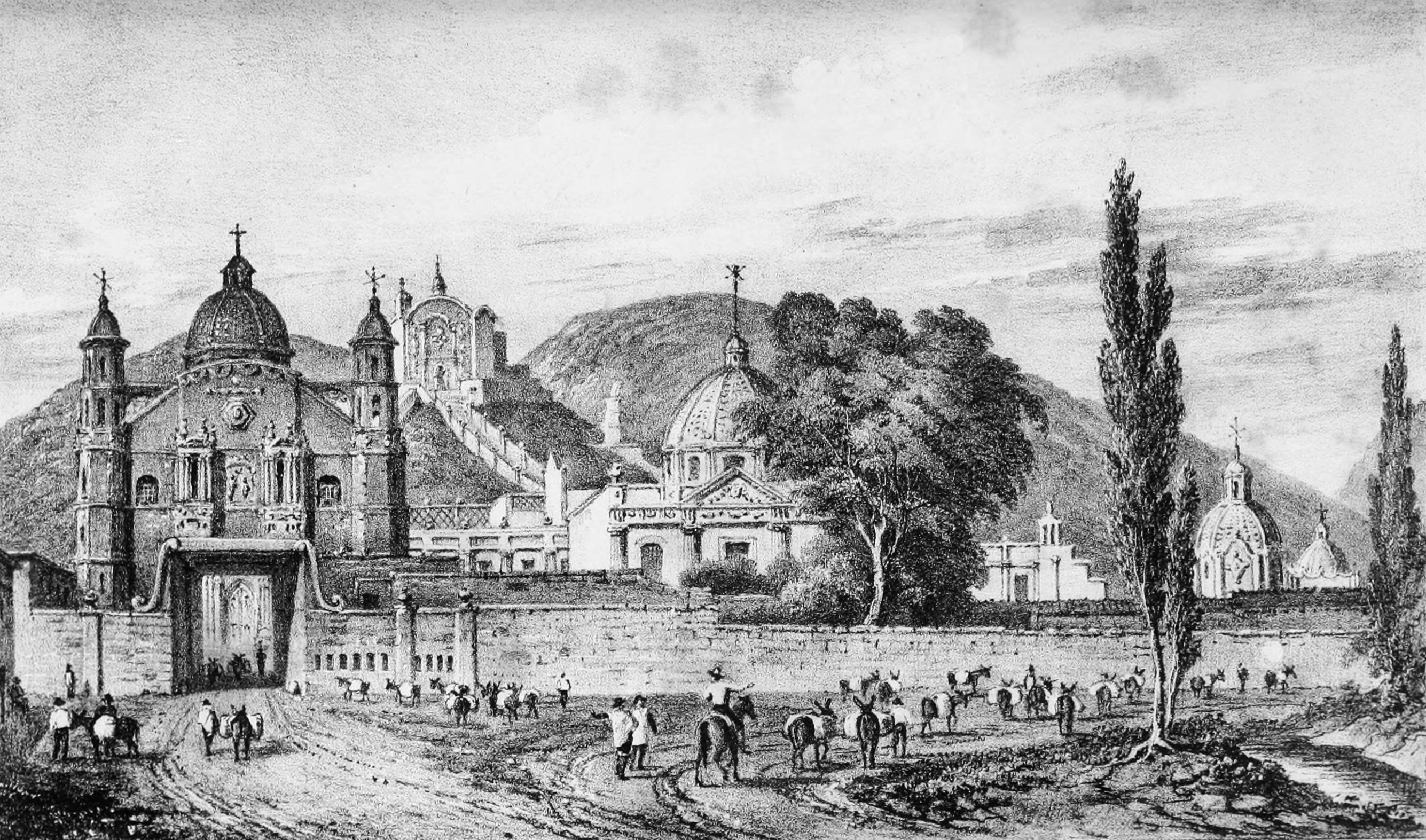 Church of N S de Guadalupe